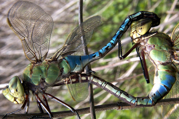 Description: jpeg image, Green Darner Dragonfly, Anax junius mating wheel Source: own work Author: Bruce Marlin